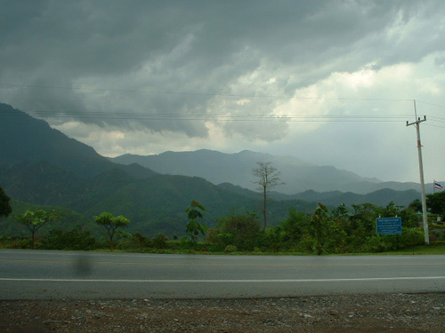 Khao Kho in Amphoe Khao Kho, Phetchabun Province. View from Highway No.12.